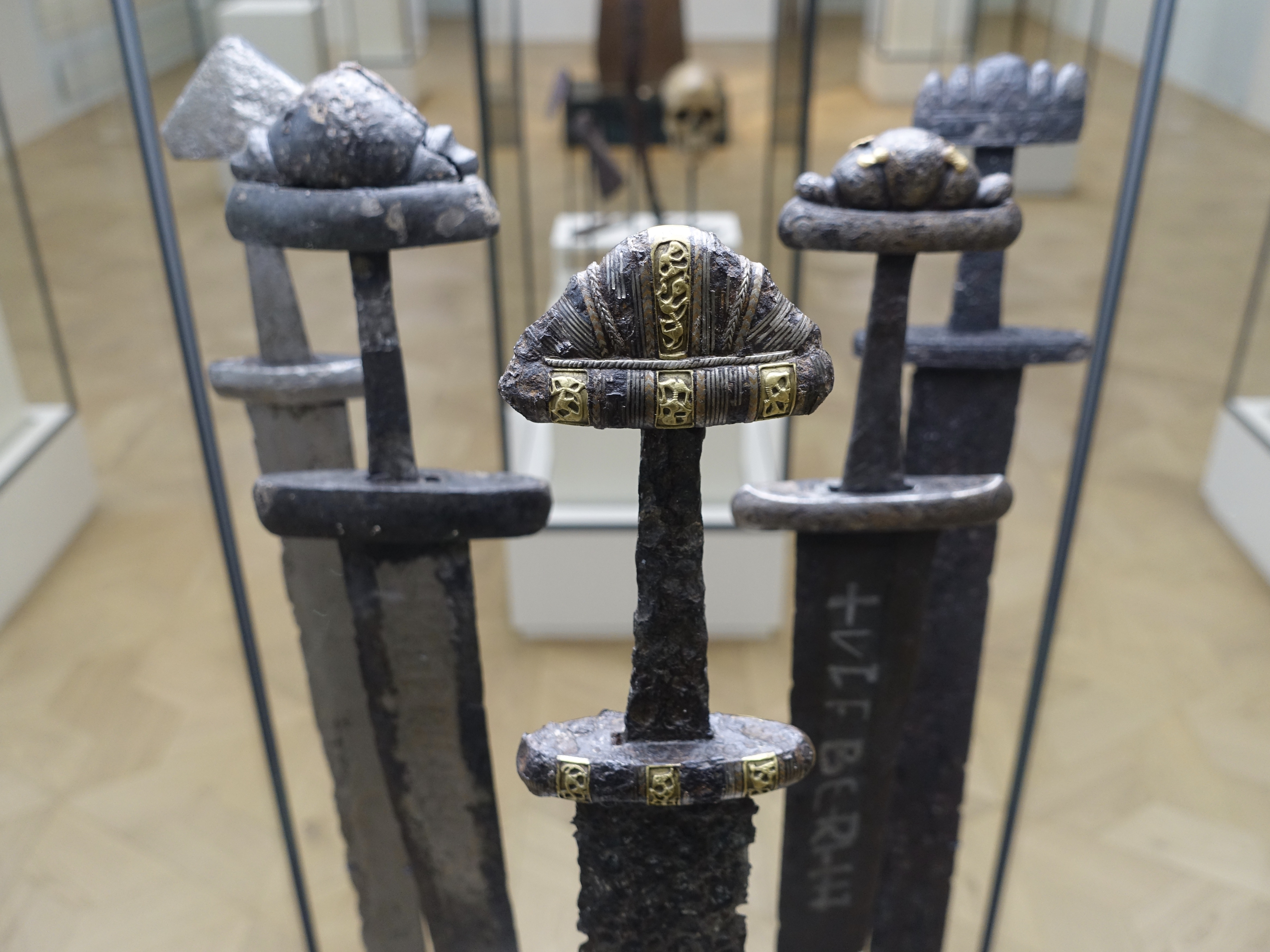 11 Elaborate viking swords with decorated hilts (handles, grips), ornated blades, home-forged and foreign-made, found in Telemark, Nordland, and Hedmark counties in Norway, dated to AD 800-1000. Photo taken on February 26th, 2020 at the VÍKINGR – Viking Age exhibition in the Museum of Cultural History of the University of Oslo (UiO Kulturhistorisk Museum) in Oslo, Norway, showing some of the most exquisite objects the museum has from the Norwegian Viking Age. Read more about the objects in English or Norwegian